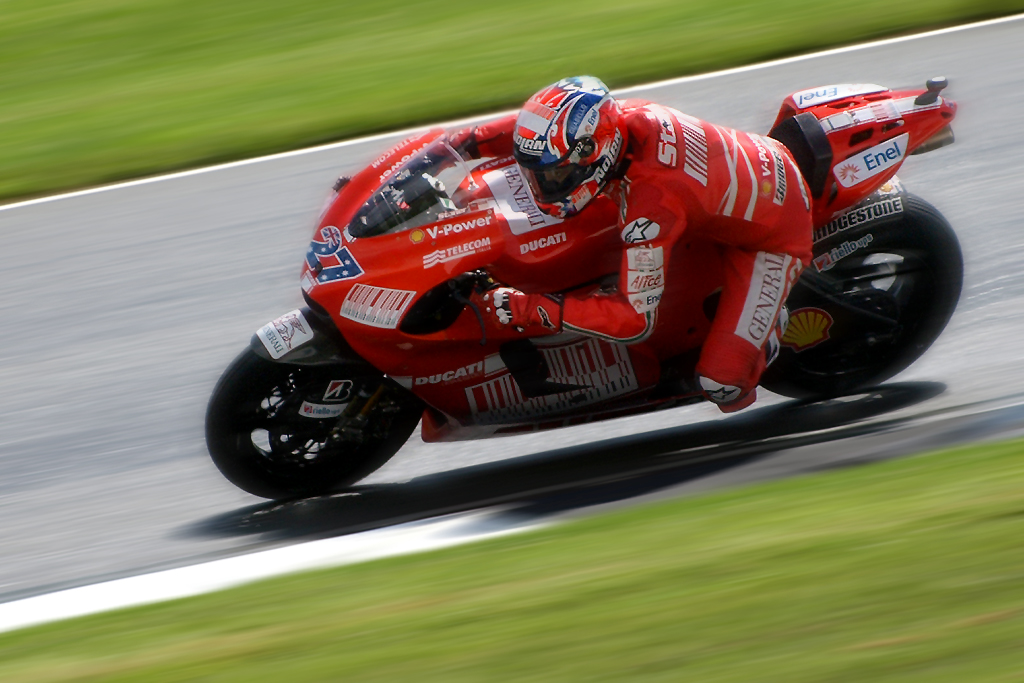 Casey Stoner. Ducati Marlboro Team. Craner Curves, Donington Park, British MotoGP 2009.